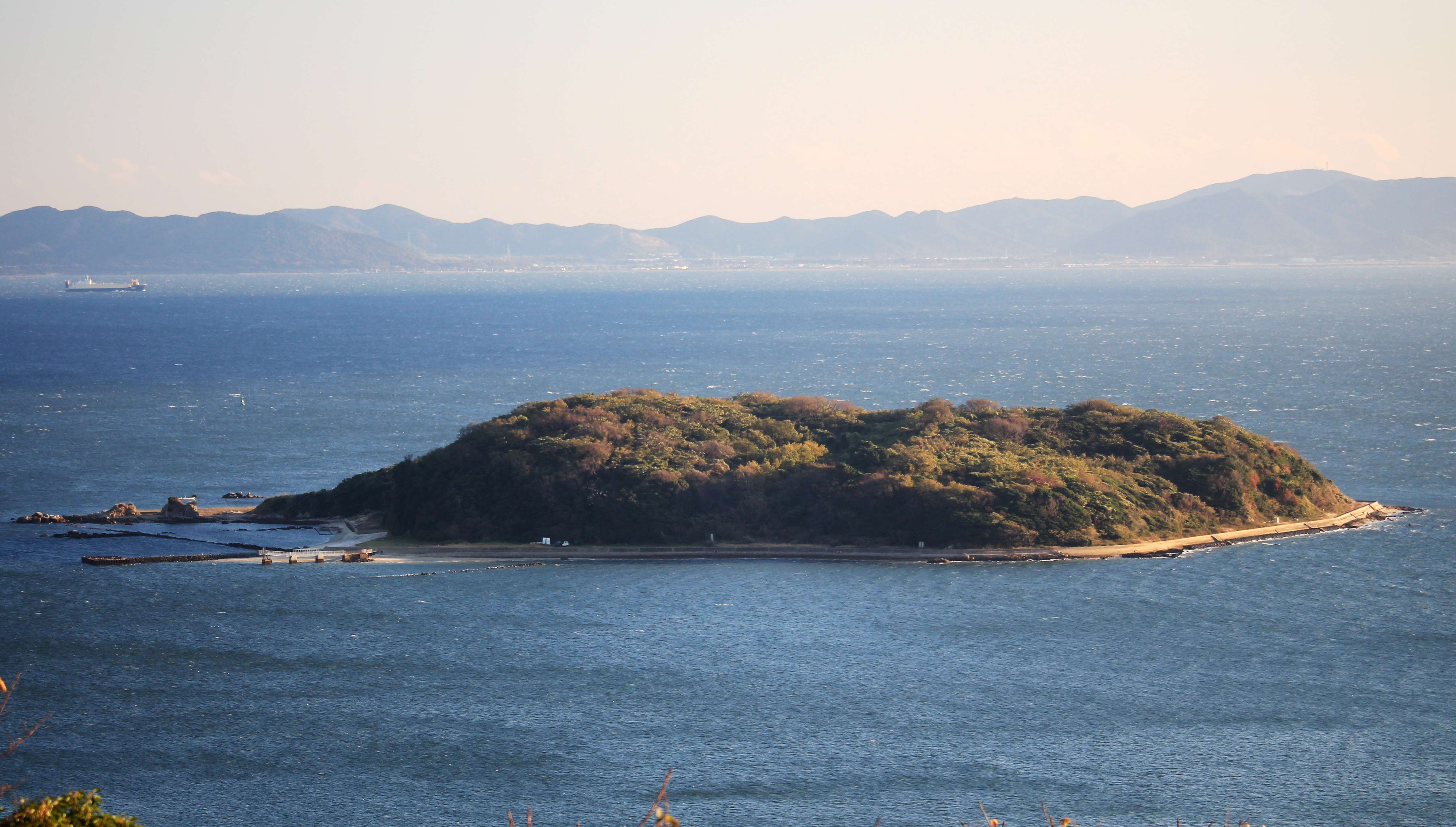 Kaji Island in Nishio, Aichi prefecture, Japan.